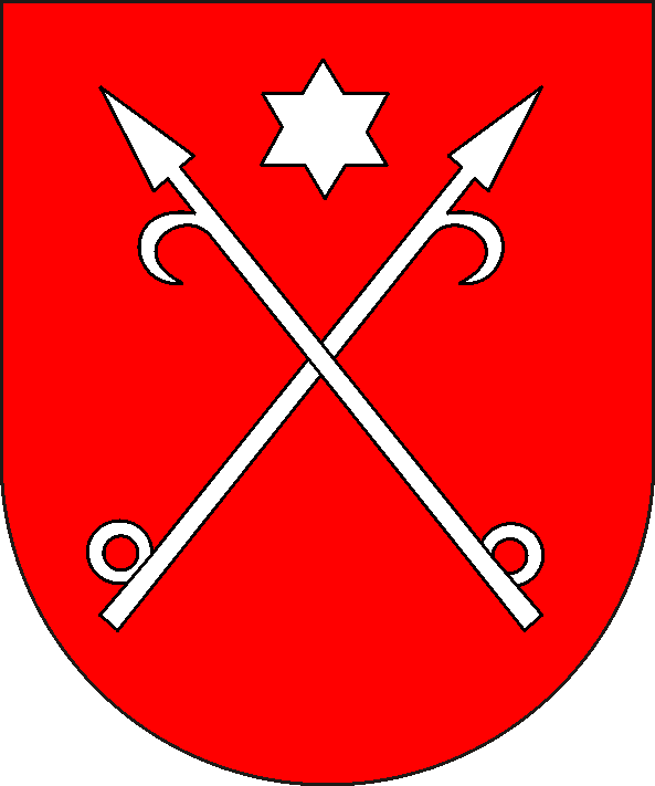 coat of arms of the bishopric of Lebus/Lubusz